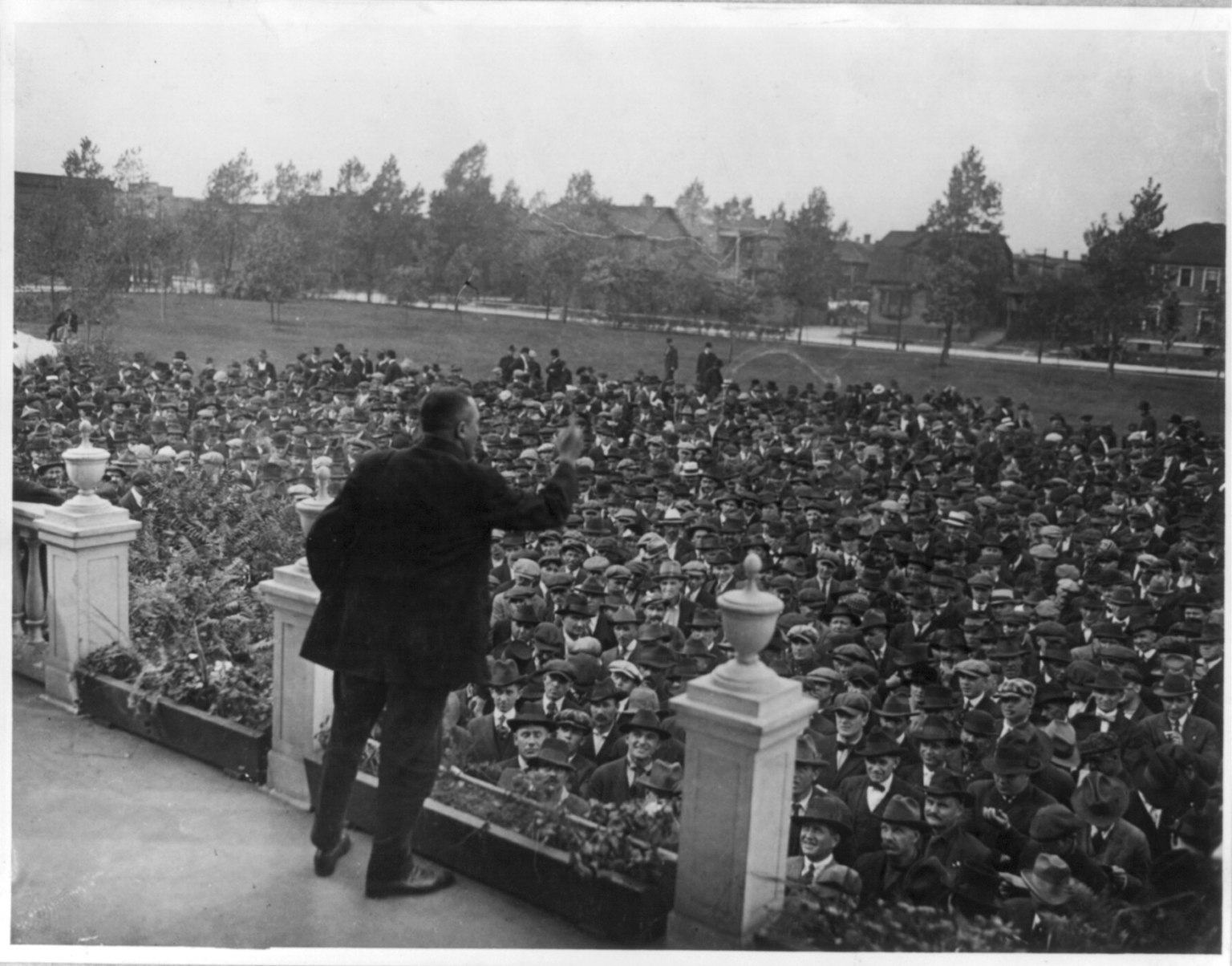 Title: Strike leader at Gary, Ind., advising strikers Abstract/medium: 1 photographic print.